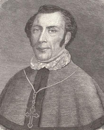 Depicted person: Michael Anthony Fleming – Catholic bishop